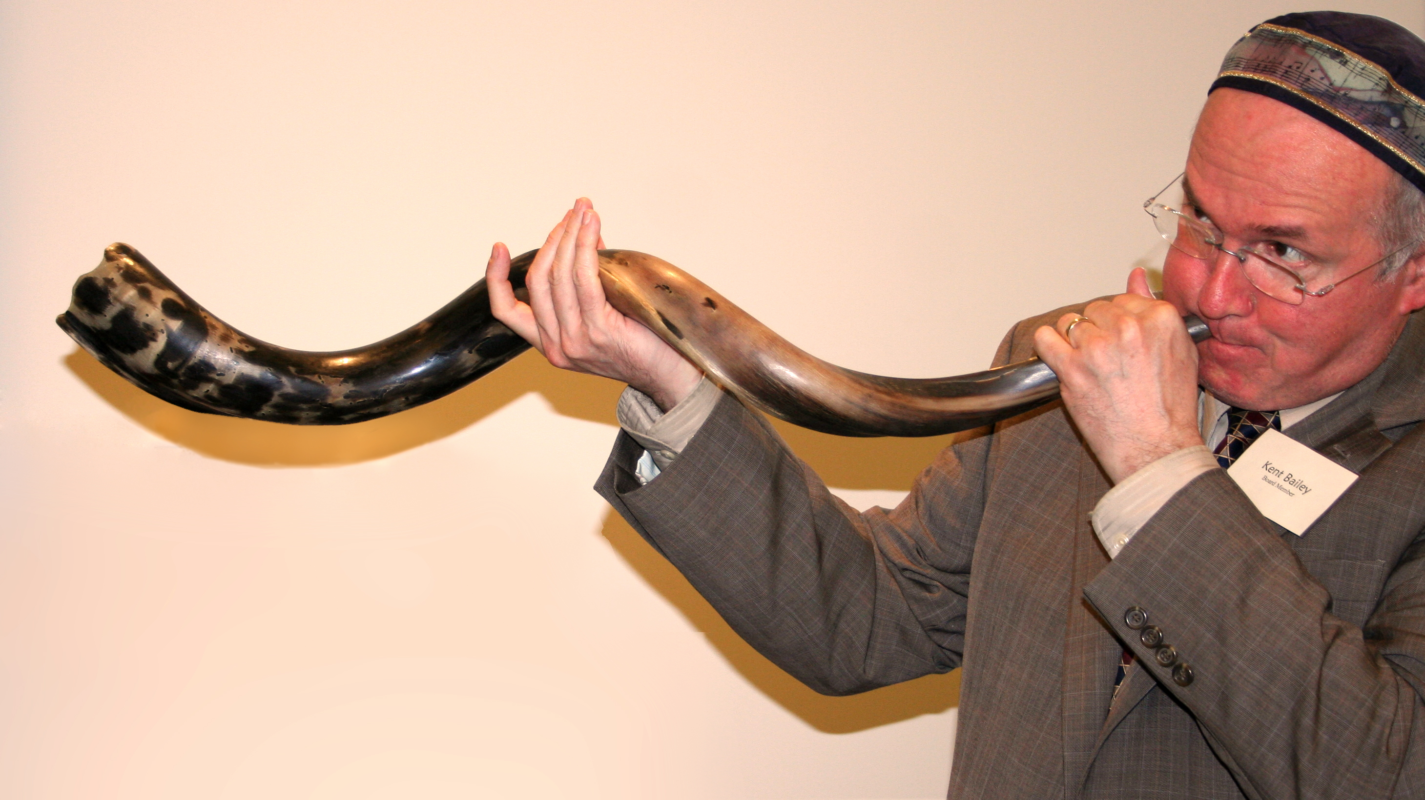 A man demonstrates sounding a shofar at a synagogue in Minnesota.